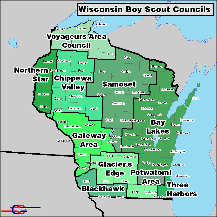 Wisconsin BSA Councils - Map created using boundary information publicized by the relevant BSA councils. US Census TIGER data used for county and state lines. Council divisions are exact where they coincide with county lines and approximate in other areas. All councils on this map are in the central region.